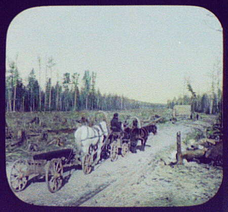 Title: Clearing on the right-of-way of the Eastern Siberian Railway, A Physical description: 1 slide : lantern, hand colored ; 3.25 x 4 in. Notes: Forms part of: Jackson, William Henry, 1843-1942. World's Transportation Commission photograph collection (Library of Congress).; Gift; William P. Meeker; 1971.